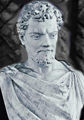 Sculpture of Lucretius, 1859-1861, Parco del Pincio, Rome